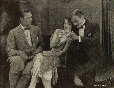 Still from the American film Nice People (1922) with Conrad Nagel, Bebe Daniels, and Wallace Reid, on page 58 of the October 1922 Photoplay.